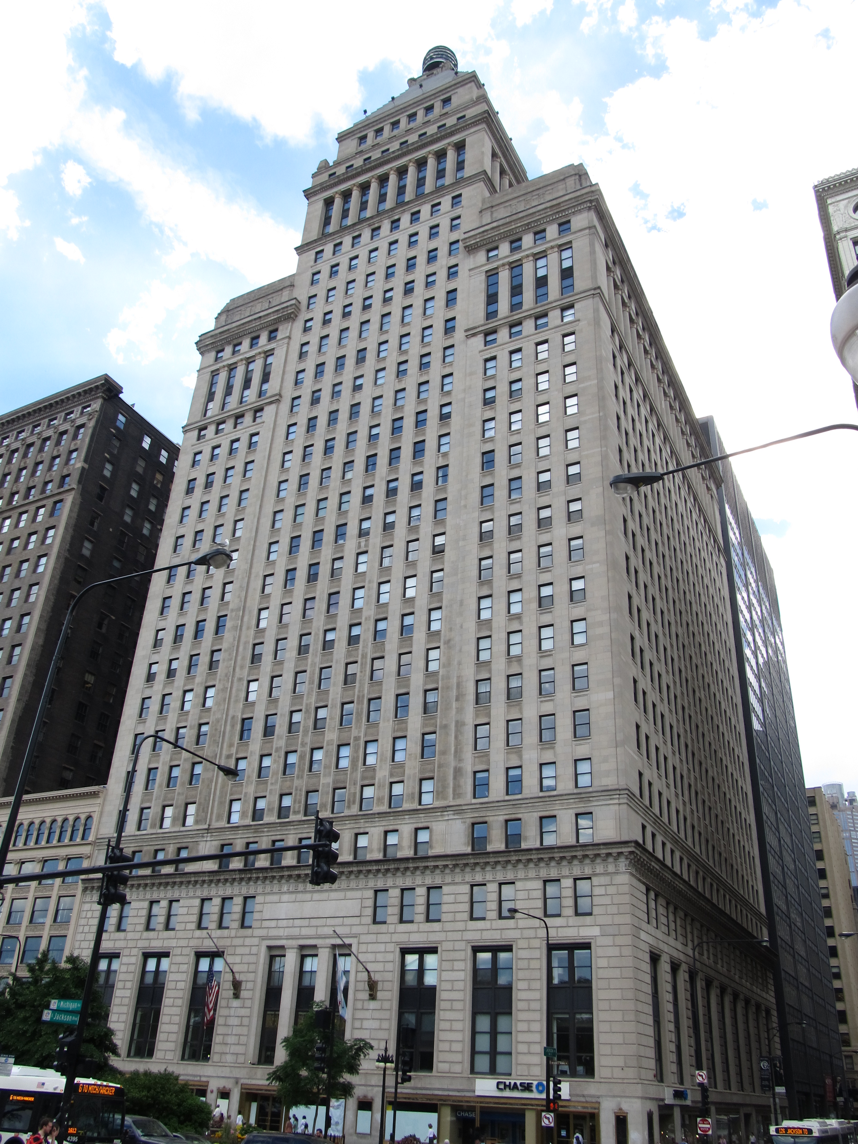 The Metropolitan Tower, owned by Metropolitan Properties of Chicago, is a skyscraper located at 310 S. Michigan Avenue in Chicago's East Chicago Landmark Historic Michigan Boulevard District in the Loop community area in Cook County, Illinois, United States and has been renovated as a condominium complex with 242 units. Residences range in size from 1,200 square feet (110 m2) to 4,000 square feet (370 m2). Penthouses feature 360 degree city views and private elevators. Prices run from $300,000 for a 762 square feet (70.8 m2) one-bedroom unit to $1.365 million for a 1,932 square feet (179.5 m2) three-bedroom. The Metropolitan Tower is also home for a branch of Chase Bank.